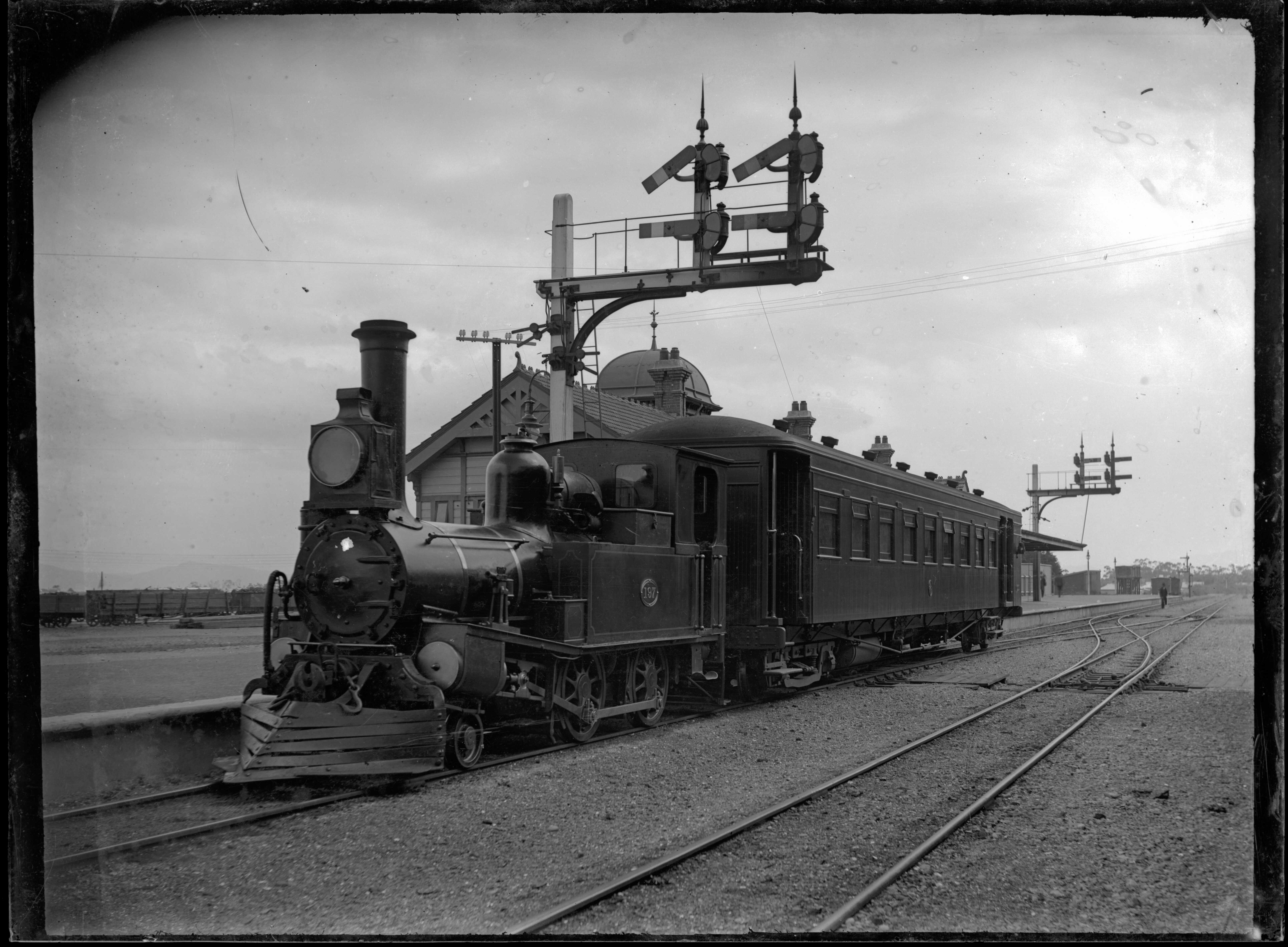 "D" 197, a D class steam locomotive, 2-4-0T type, photographed at Lower Hutt Railway Station in 1906 by Albert Percy Godber.